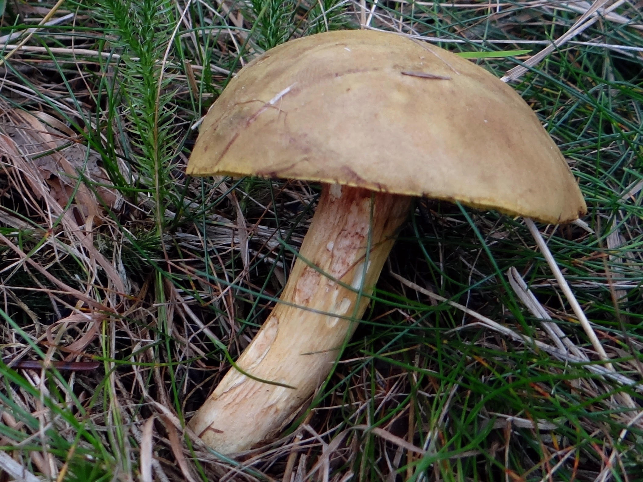 Xerocomus ferrugineus BŻ6.1.jpg (location : Poland, Beskid Żywiecki}